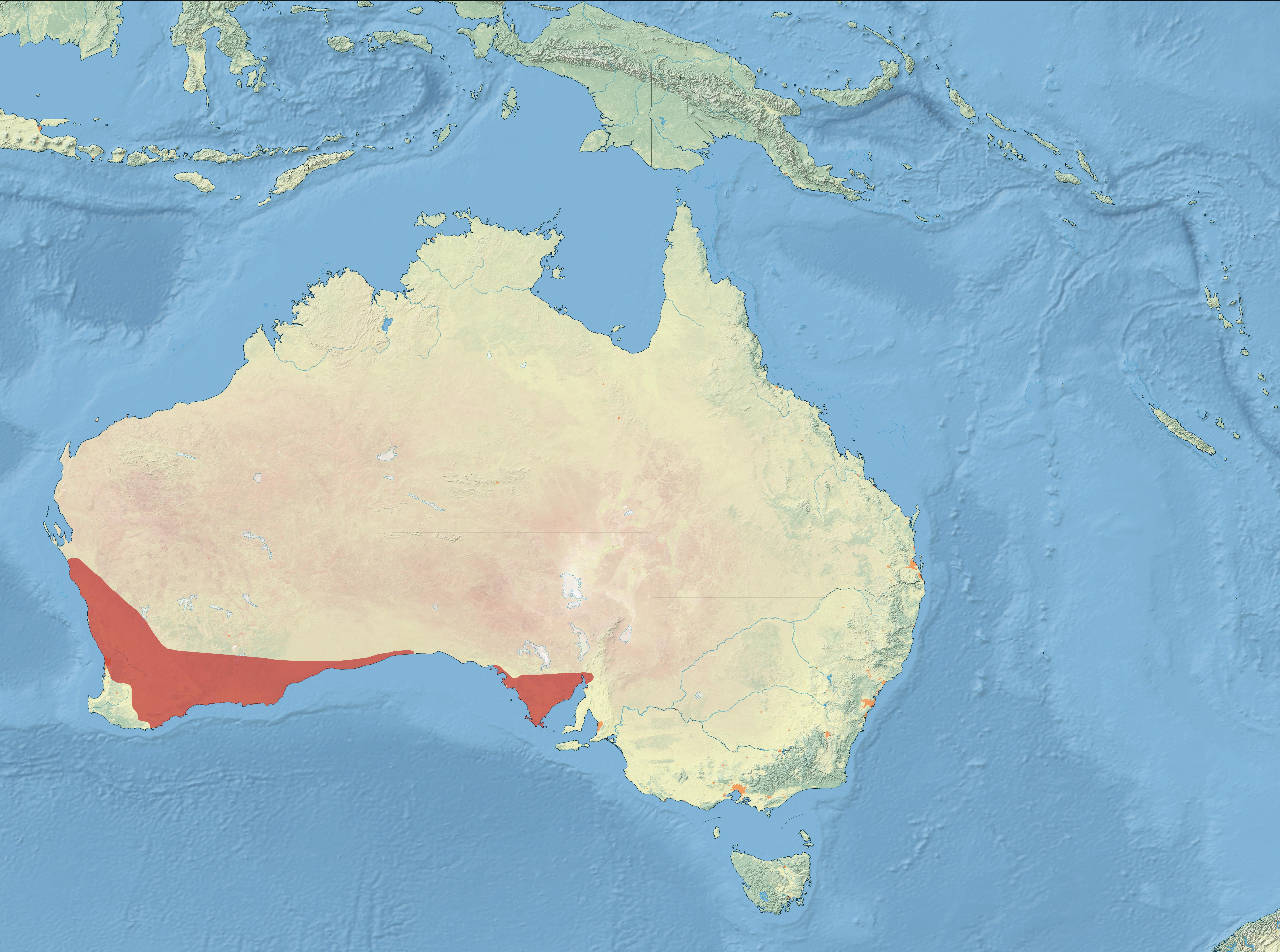 The IUCN Distribution of Blue-breasted Fairywren Maroon = Resident Purple = Breeding Orange = Non-breeding Hatched = Passage Grey = Possibly Extinct Blue = Introduced